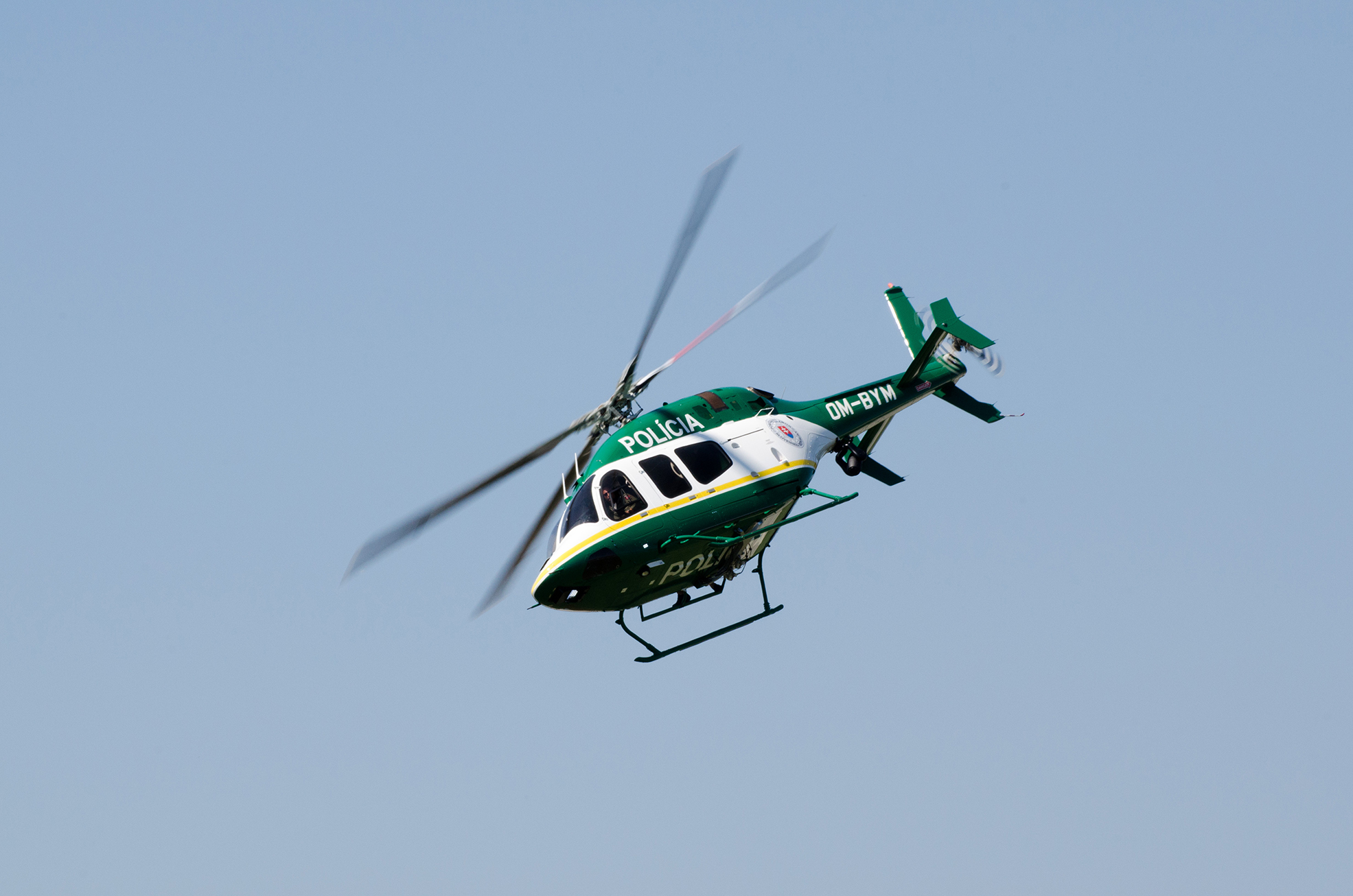 Bell 429 Slovak police